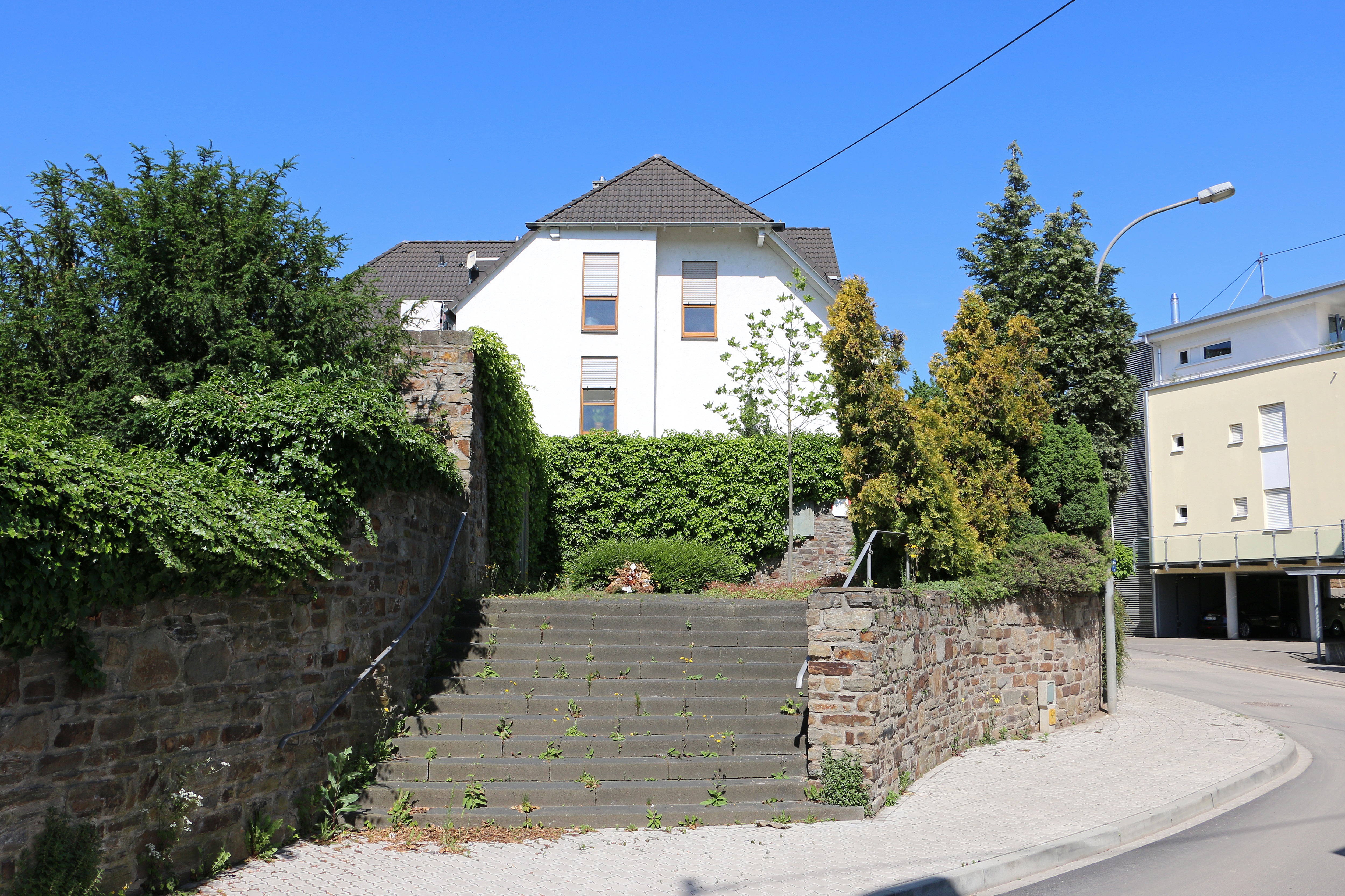 Memorial for destroyed church St. Bernhard in Koblenz